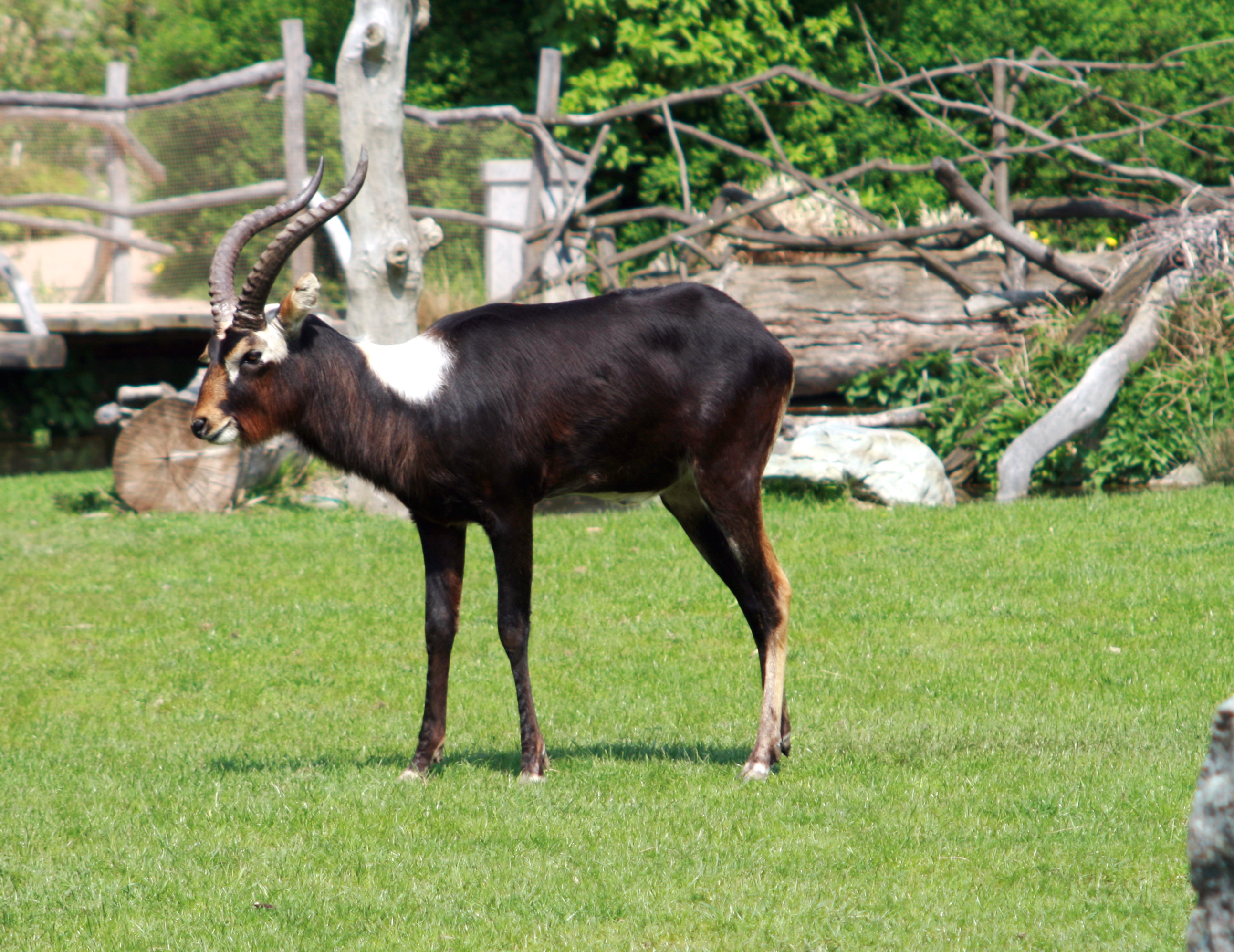 Kobus megaceros from Prague Zoo park, Czech Rebublic